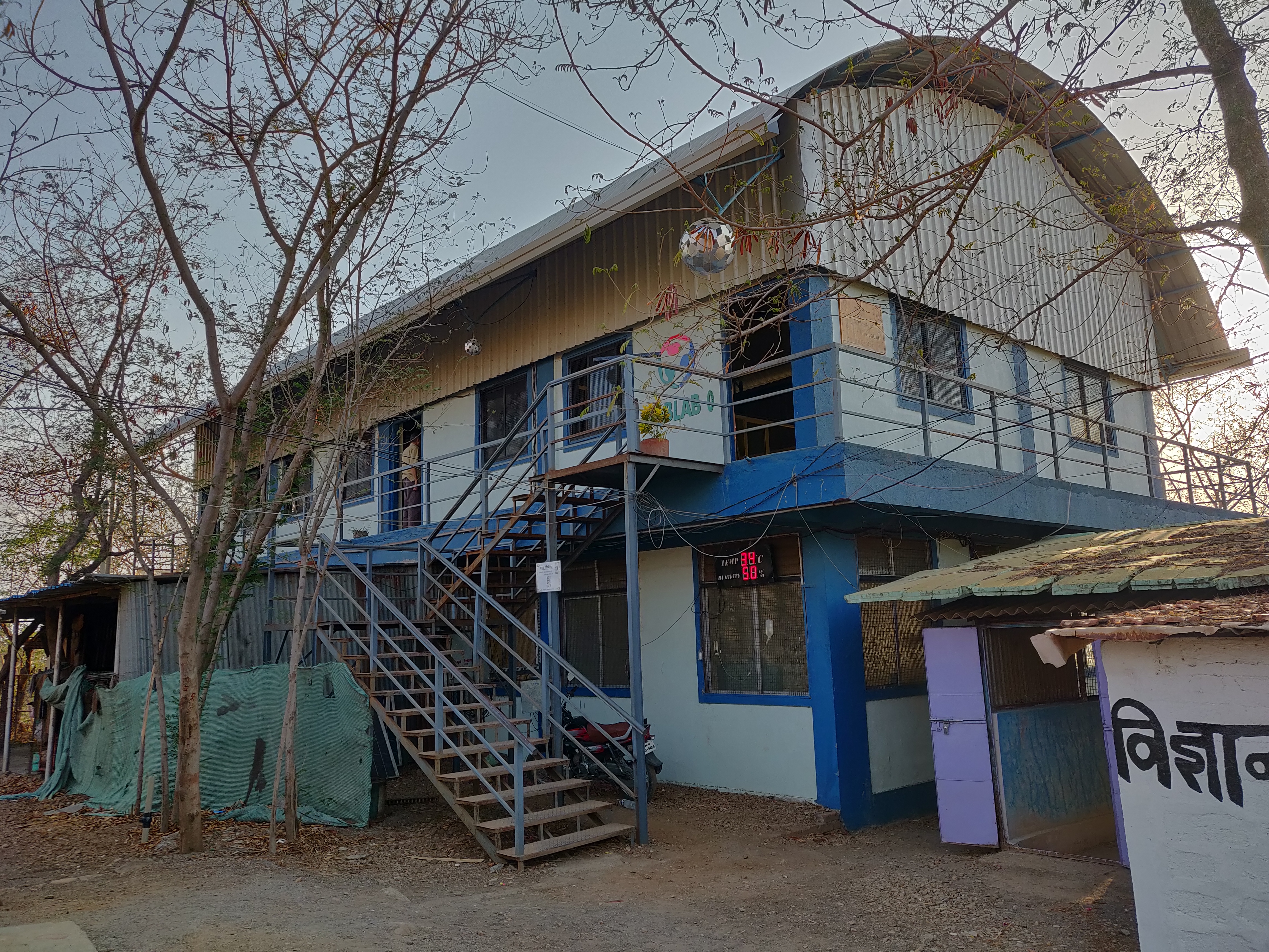 Vigyan Ashram Pabal-cource